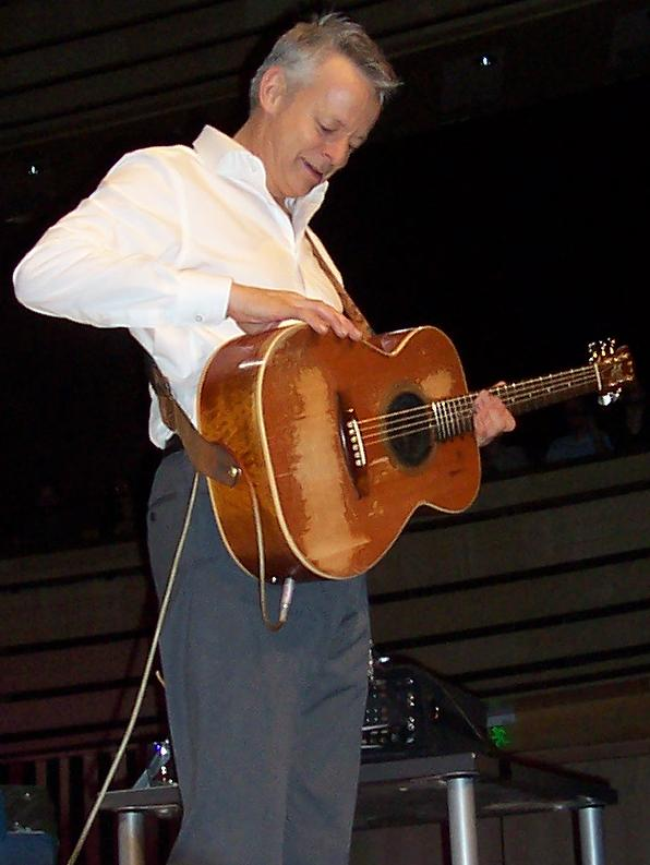 Tommy Emmanuel Australian guitarist, Palace of Arts, Budapest, Hungary, 04.22.2008.